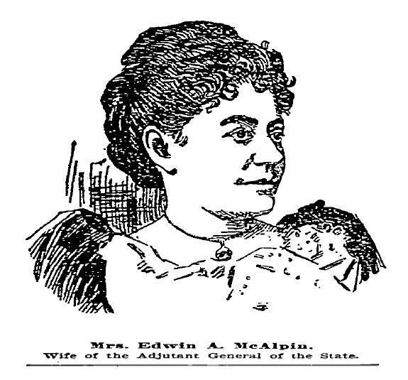 Line drawing of Anne Brandreth McAlpin, wife of General Edwin A. McAlpin, Adjutant General of the New York under Governor Morton, commander of the 71st Regiment of the New York Militia, (Later the New York Guard). McAlpin was involved in the tobacco industry and was a prominent activist in the Republican Party in New York.